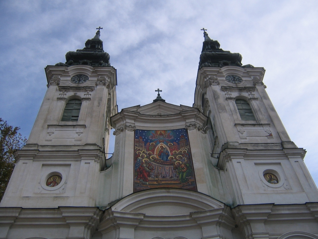 Orthodox Church, Lugoj, Romania